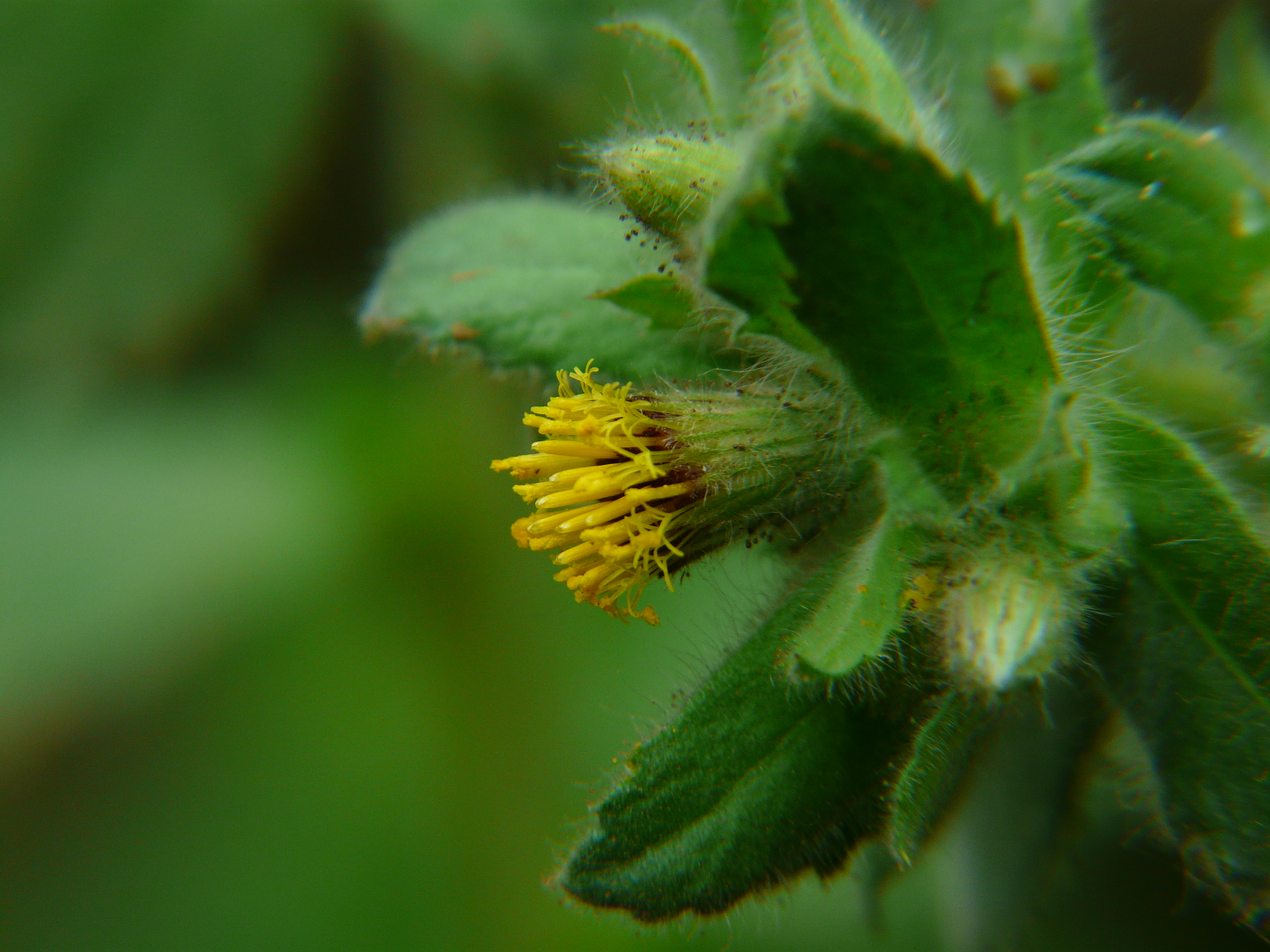 Asteraceae (aster, daisy, or sunflower family) » Blumea belangeriana blum-EE-uh -- named after Karl Ludwig von Blume, Dutch botanist ¿ bay-lan-ger-ee-AY-nuh ? -- probably named for M. Charles Bélanger commonly known as: Belanger's blumea Endemic to: Konkan and Malabar Western Ghats (of India) References: Sahyadri Database • The Flora of British India, Vol. 3 • efloraofindia